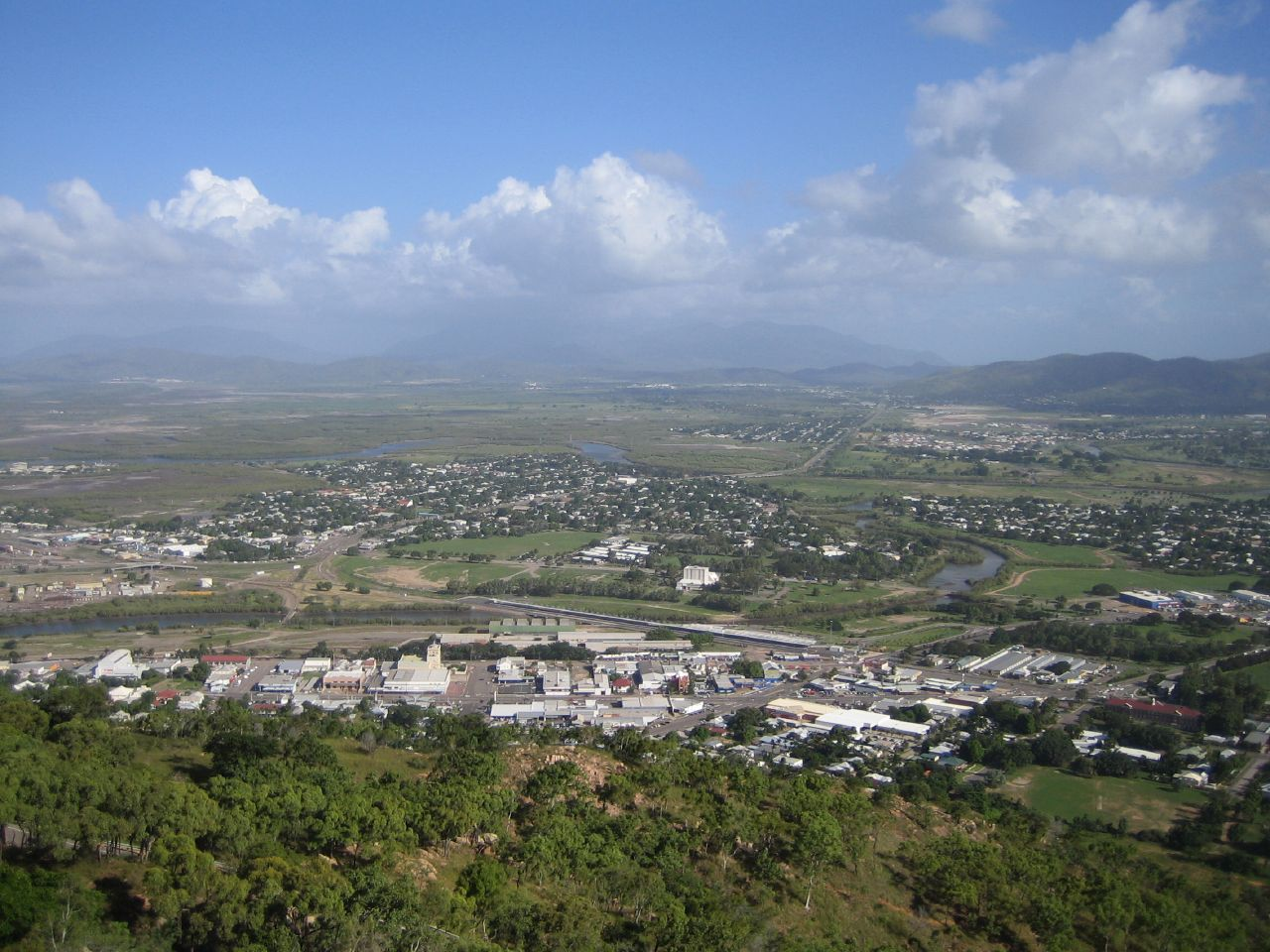 Over looking Townsville